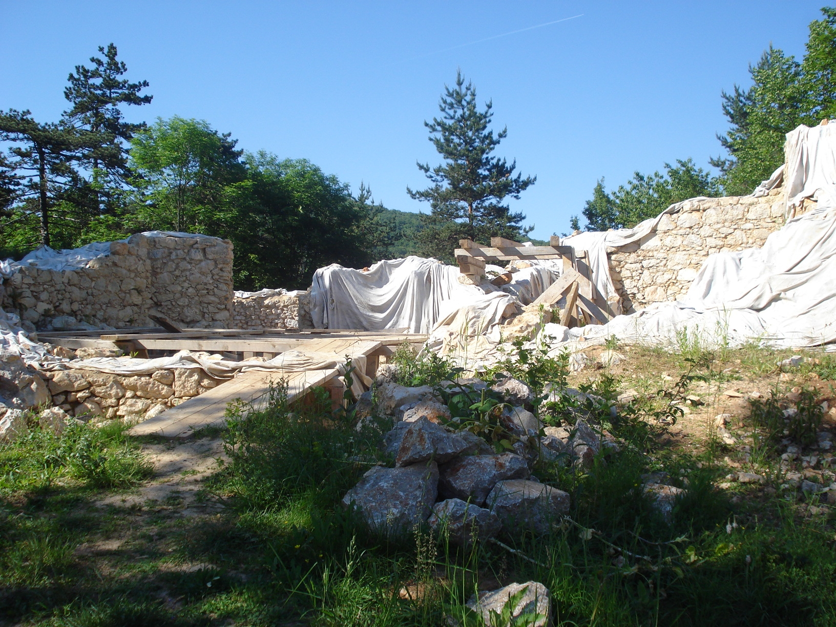 Ruins of Fortica castle in Otočac (Croatia)